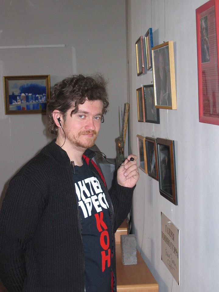 Dmitry Skiryuk, Russian writer and journalist